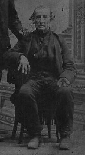 A photo of Dillard Cooper, survivor of the Goliad Massacre in 1836, depicted in his elder years, circa 1880-90's